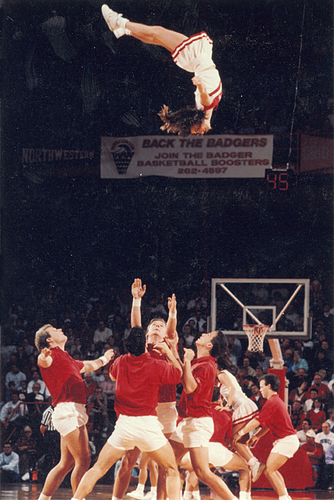 A cheerleader is vaulted into the air during halftime at a University of Wisconsin--Madison basketball game. Photograph by Greg Anderson, February 20, 1992 UW Digital Collections